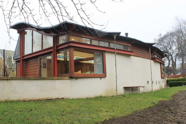 Maggies Centre, Edinburgh, Scotland